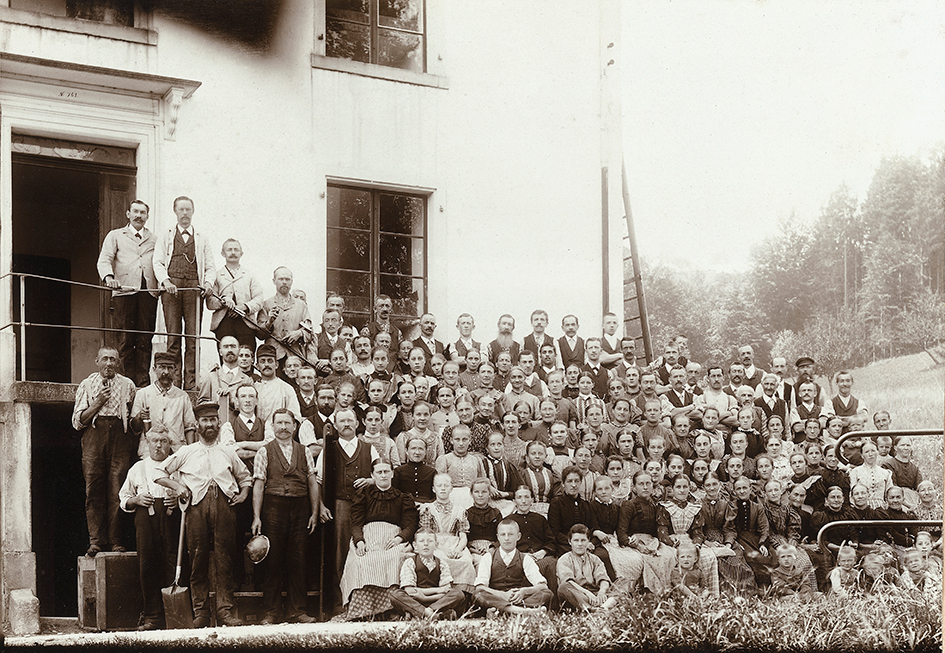 Workers at the textile factory "Hueb", part of the factories of the Otto & Johannes Honegger AG, in the village of Wald in the canton of Zürich in Switzerland